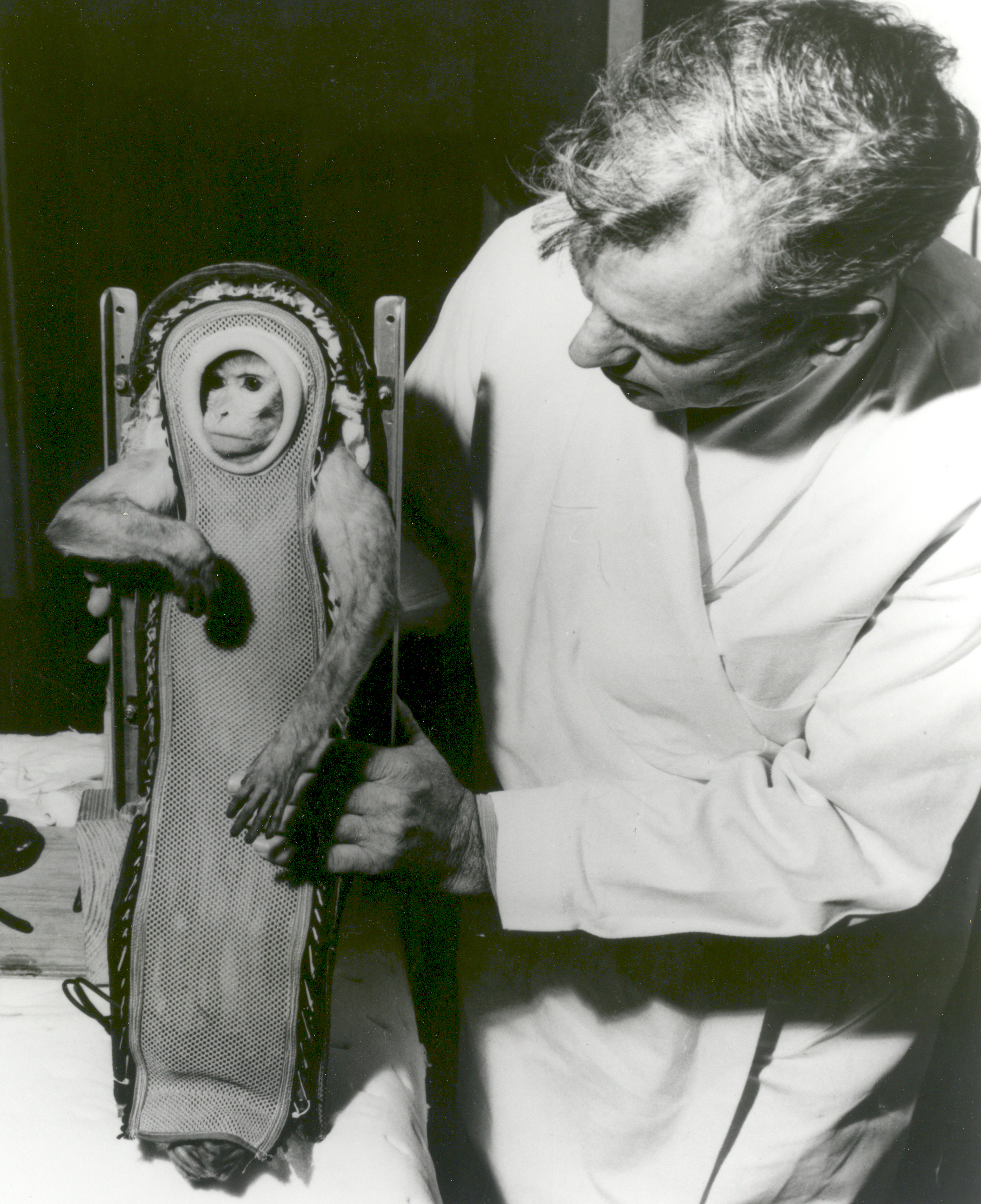 Sam, the Rhesus monkey, after his ride in the Little Joe-2 (LJ-2) spacecraft. A U.S. Navy destroyer safely recovered Sam after he experienced three minutes of weightlessness during the flight. Animals were often used during test flights for Project Mercury to help determine the effects of spaceflight and weightlessness on humans. LJ-2 was one in a series of flights that led up to the human orbital flights of NASA's Project Mercury program. The Little Joe rocket booster was developed as a cheaper, smaller, and more functional alternative to the Redstone rockets. Little Joe could be produced at one-fifth the cost of Redstone rockets and still have enough power to carry a capsule payload. Seven unmanned Little Joe rockets were launched from Wallops Island, Virginia from August 1959 to April 1961.